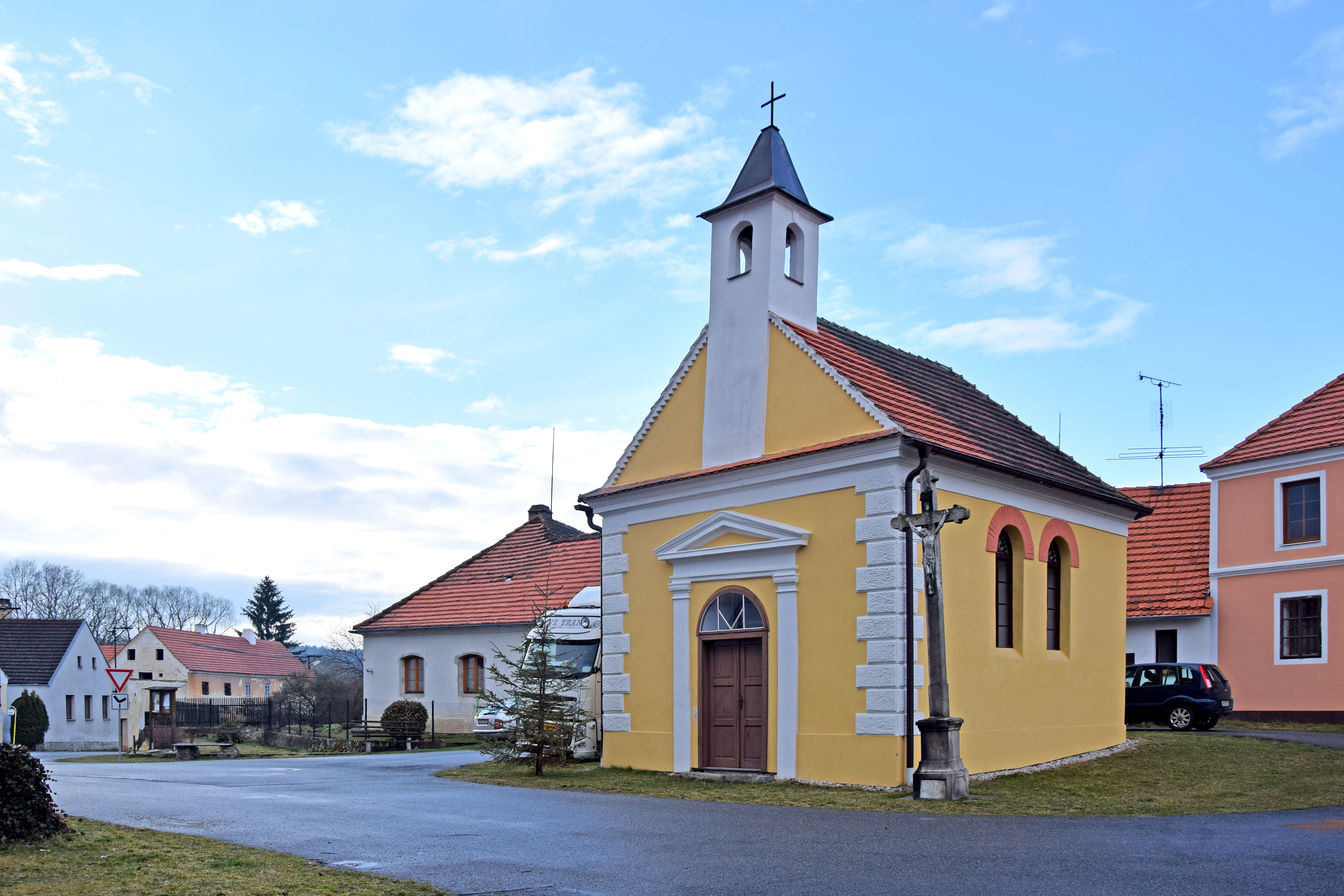 Chapel in Dolní Chrášťany, Prachatice District, the Czech Republic.